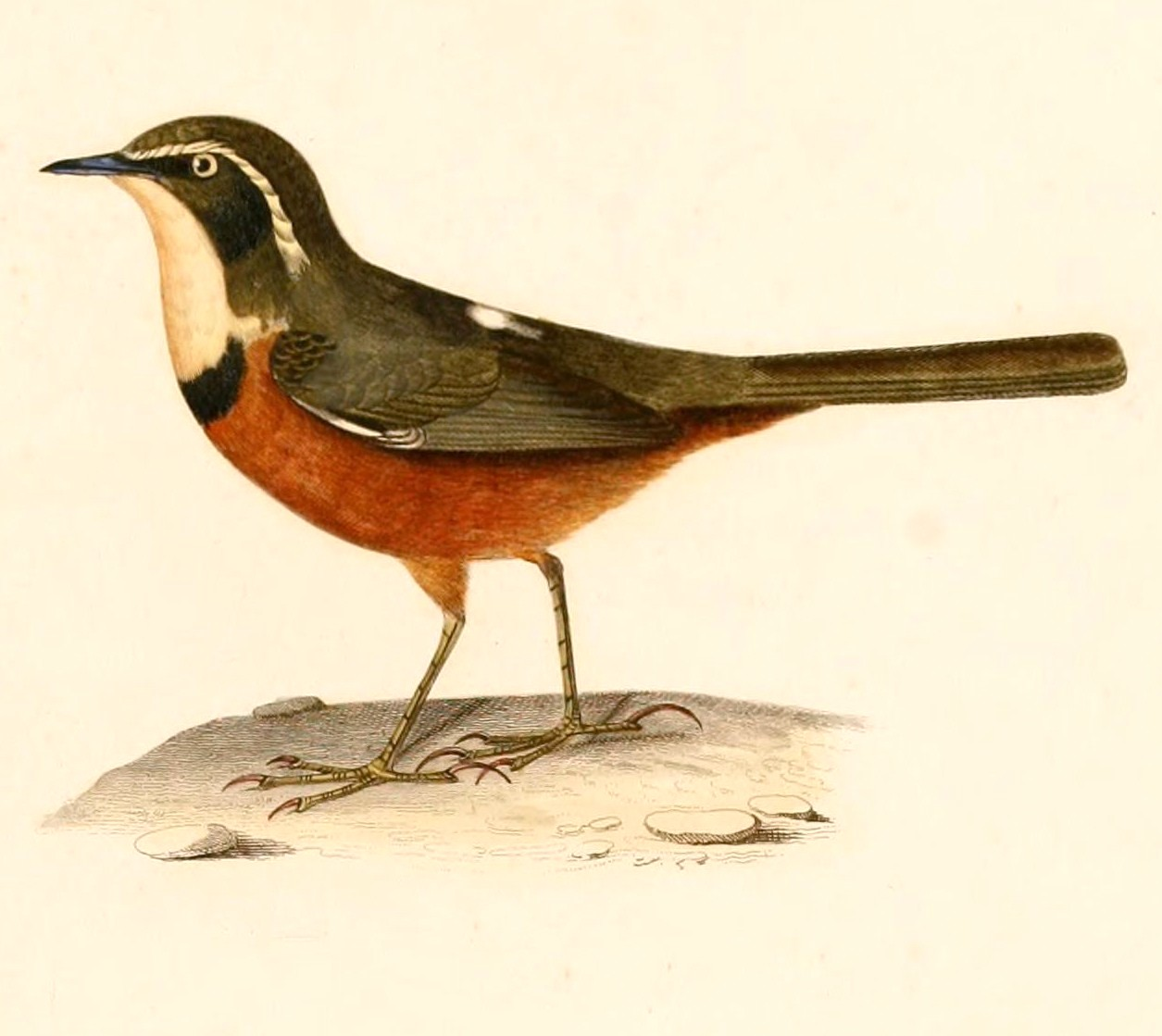 « Synallaxis torquata » = Melanopareia maximiliani (Olive-crowned Crescentchest)